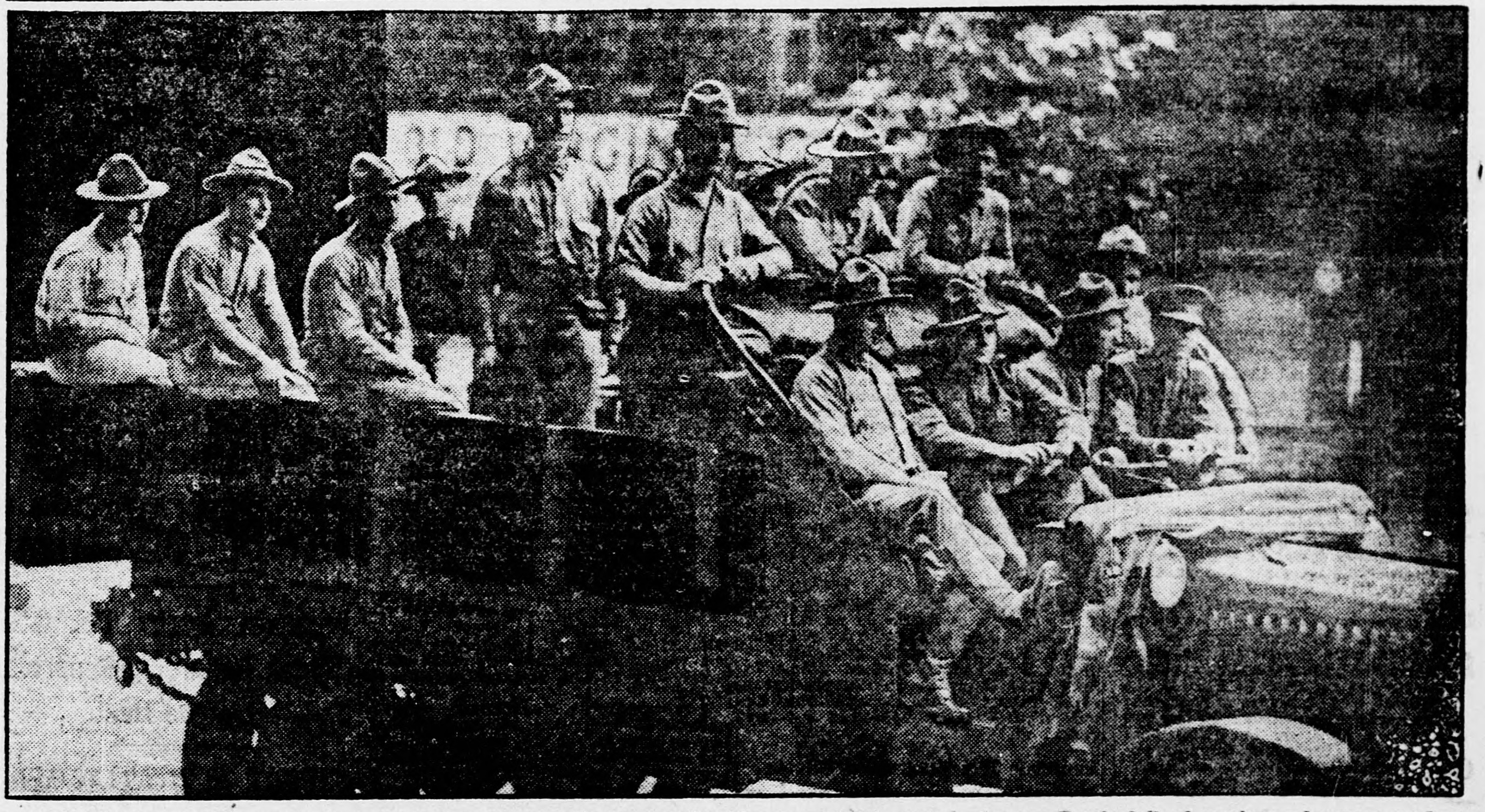 Military occupation during the Washington race riot of 1919